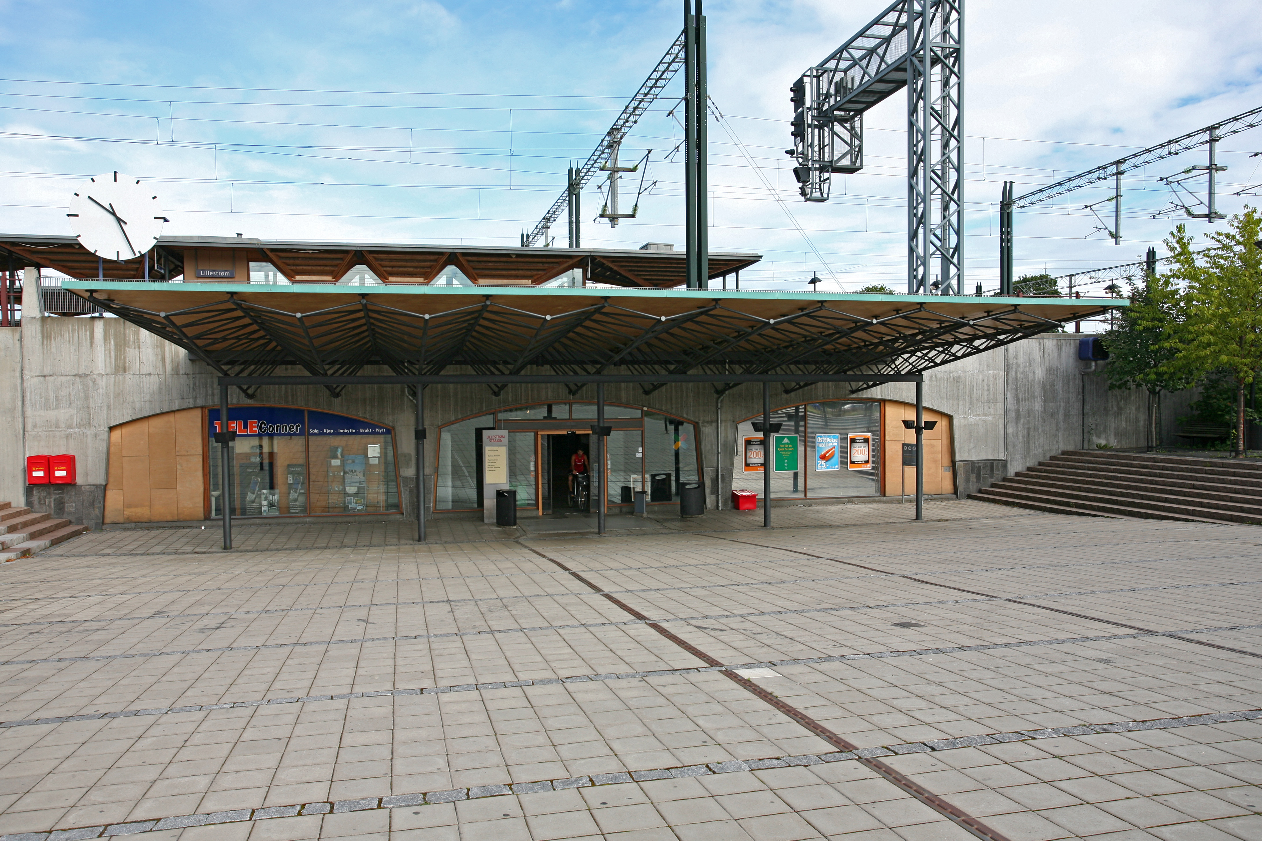 Picture of Lillestrøm Railway Station (Akershus - Norway)